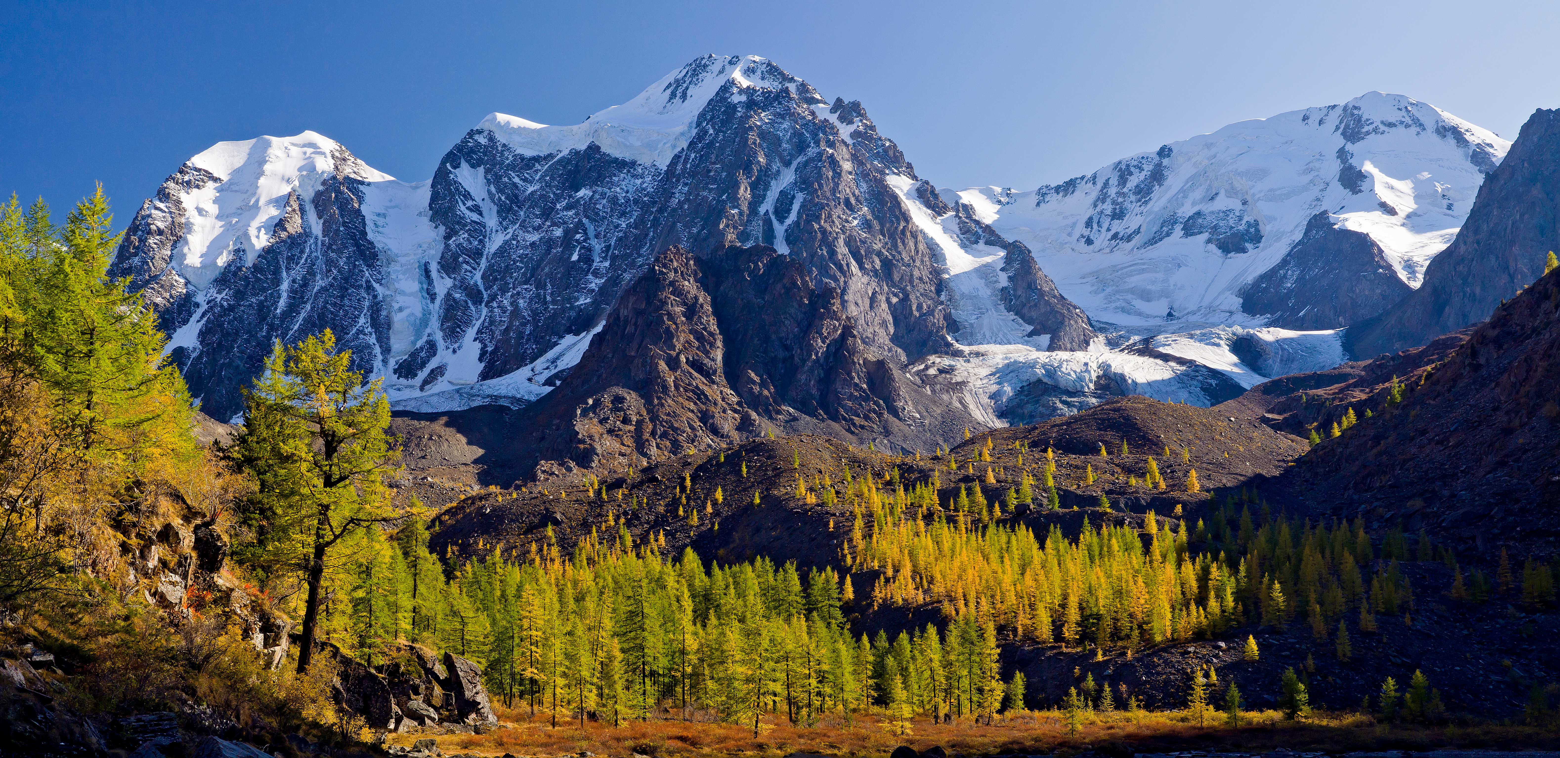 The Chuya Alps, Altai Mountains. The Altai Republic. Russian Federation. A view from Lake Shavlo on tops of North Chuya Range, with Larix sibirica forest in foreground.